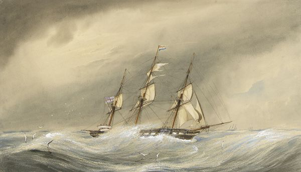 The frigate HMS 'Endymion', launched in Deptford in 1865. She served in the Mediterranean, and visited Australia in 1869-70 as part of the famous Flying Squadron. In 1881 she was transferred to the Metropolitan Asylums Board, and returned to the Thames as the support ship for the floating smallpox hospital 'Atlas'. In 1884 she joined the 'Atlas' and the 'Castalia' off Long Reach, where they remained until 1902.